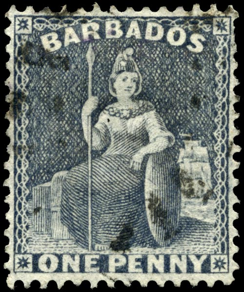 Barbados 1p grayblue stamp of 1875